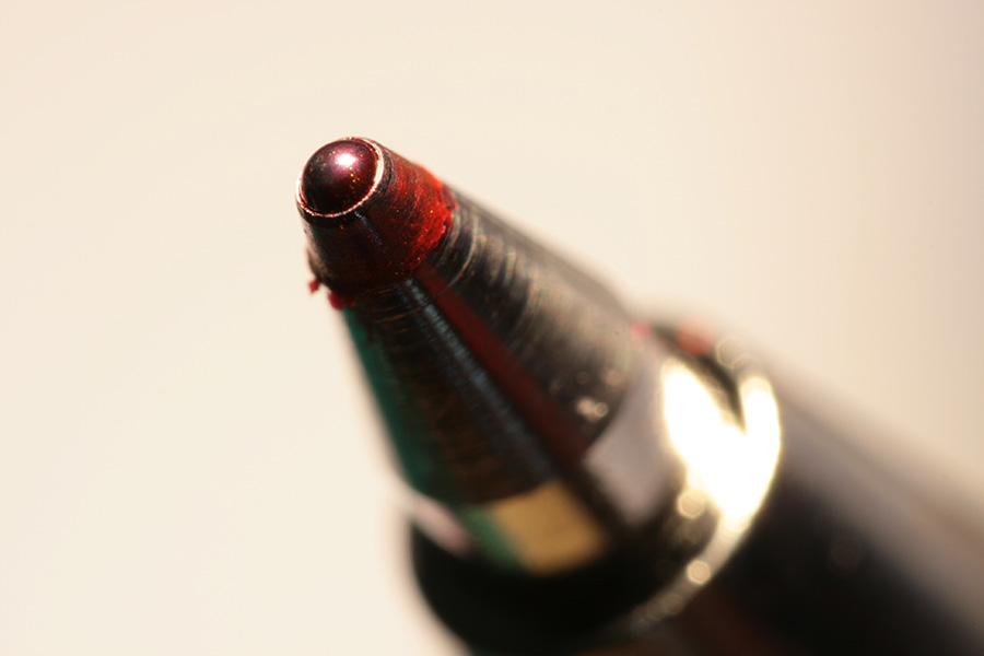 Macro of a rollerball with a 0.7mm tip -- Makro eines Tintenrollers mit einer 0.7mm Spitze